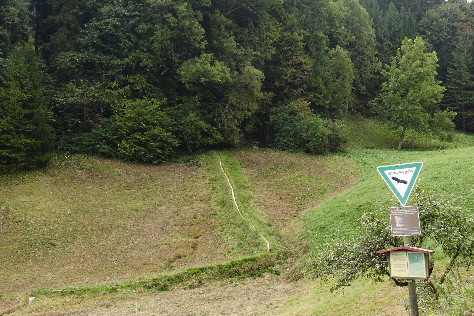 Calctuff runnel (Steinerne Rinne) southwest of the village Dießen (west of Horb am Neckar), Baden-Württemberg. When attempts were made to drain a wet meadow ca. three hundred years ago, a calctuff runnel began to develop. The legally protected, fragile runnel monument at Dießen has a length of ca. 200m. The geology of the area is mainly Muschelkalk (Triasssic). The valley of the rivulet Dießen is the „Naturschutzgebiet Dießener Tal und Seitentäler“. Different kinds of calctuff depositions are quite frequent here. There even used to be a few quarries, which are now closed. In very tiny brooklets the calcium carbonate, solluted in karstic water, is chemically precipitated, such that limestone is continually deposited to form a growing runnel, along which the water runs. There are ca. 25 such fragile objects known in heavely karstic territory of the Swabian Alb and the Franconian Jura.